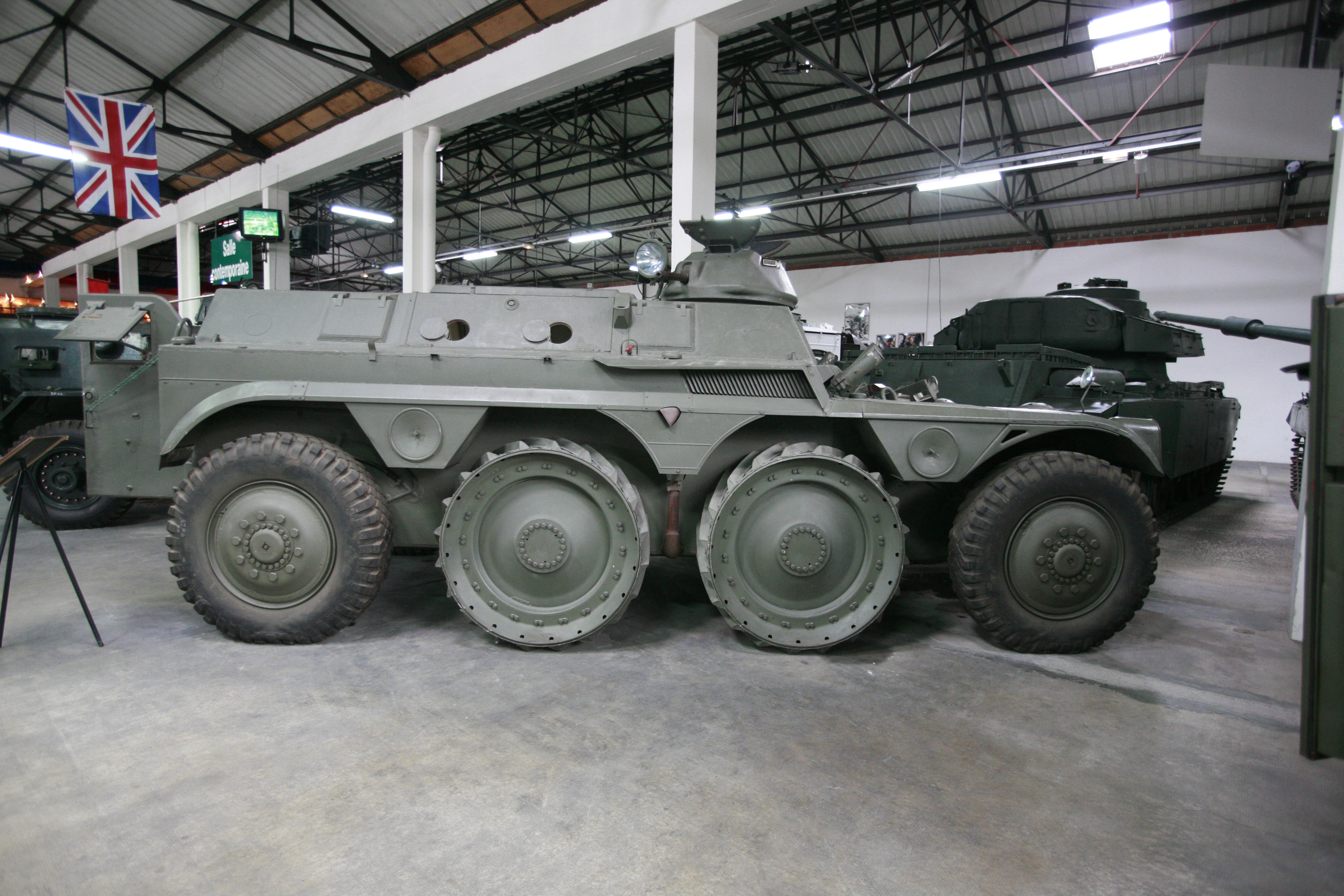 EBR ETT. On display at Saumur Général Estienne museum.